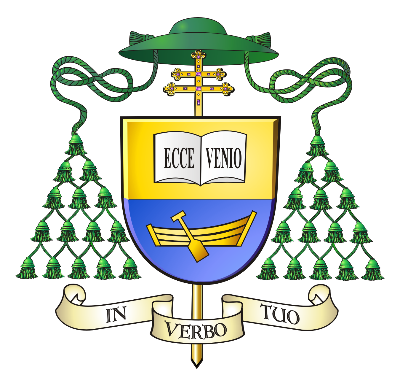 COA of Henryk Muszyński, Primate Emeritus of Poland